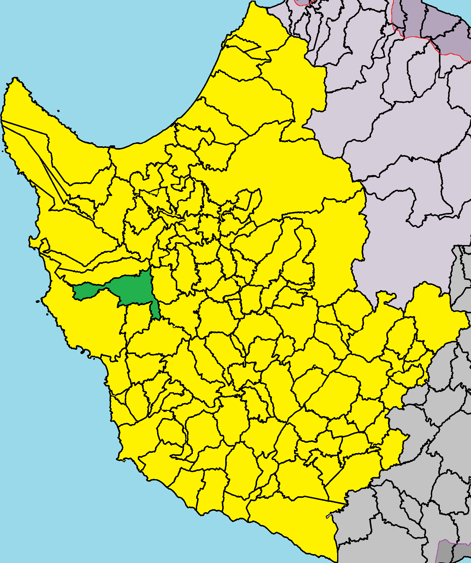 Kathikas in Paphos District.